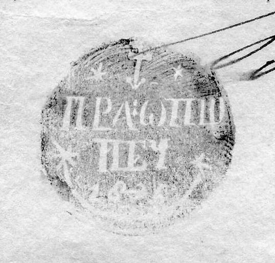 Seal of Pravets municipality - 1876